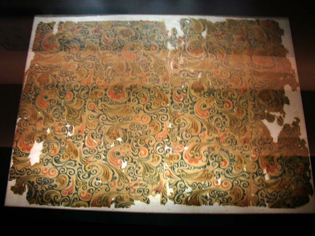 Cloud-patterned silk from the Tomb No. 1 at Mawangdui, Changsha, Hunan province, China, dated to the 2nd century BC during the Western Han Dynasty (202 BC - 9 AD).